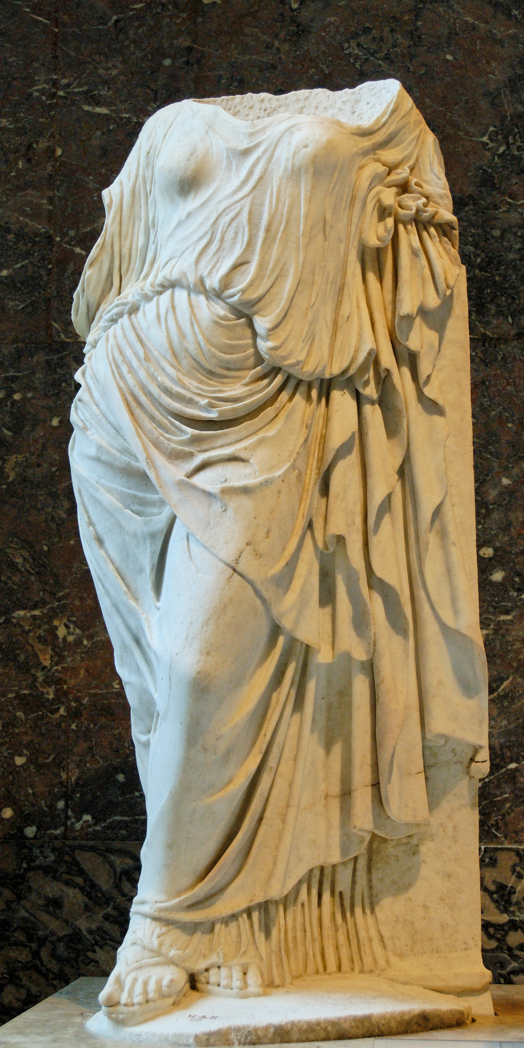 Aphrodite leaning against a pillar. Marble, Roman copy of the 1st–2nd centuries CE after a Greek original of the late 5th century BC. Previously restored as a Thalia.